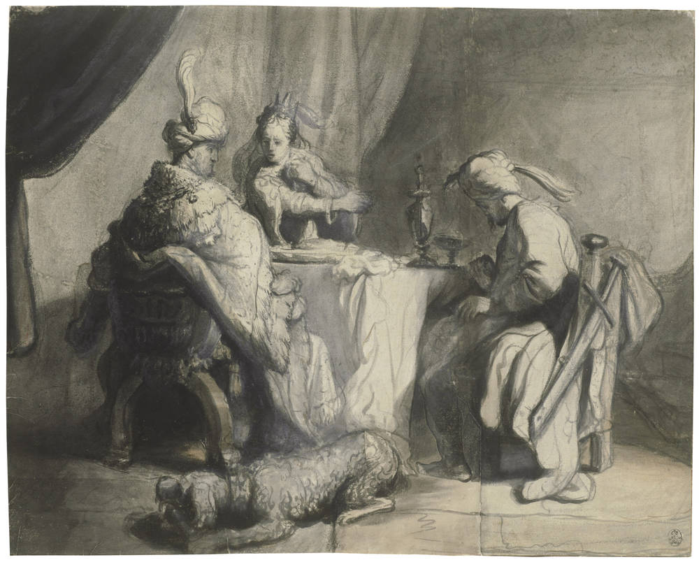 The Feast of Ester, Jan Lievens, c. 1625, drawing, Kupferstichkabinett Dresden